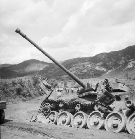 AWM description: These two disabled Centurion tanks played a part in the April battle of the Imjin River when the heroic 1st Battalion, The Gloucestershire Regiment, fought Chinese troops in a two day battle before they were overwhelmed. The tanks formed part of a breakthrough force, but came under heavy fire ahead of a Chinese road block.